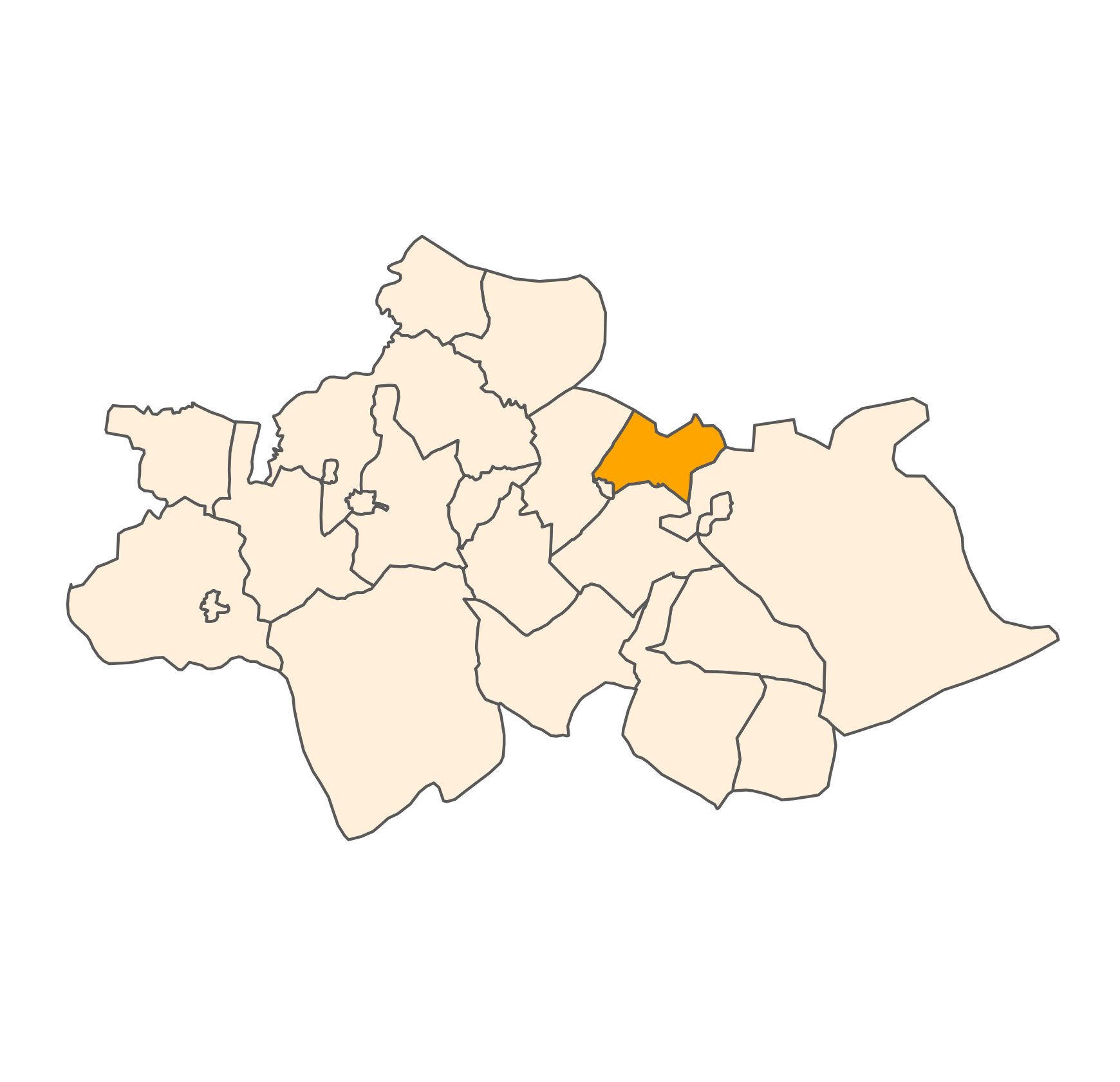 Commune (Orange), Sefrou Province (Antique White)